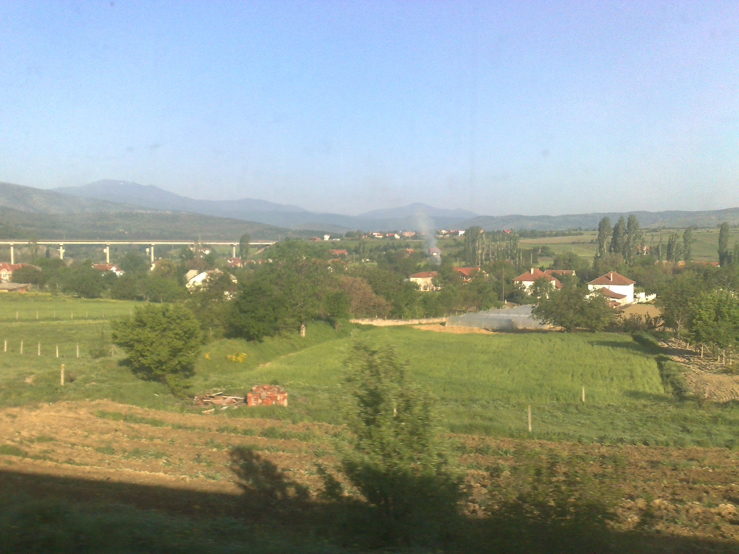 View of the village of Otovica, Veles region, Macedonia